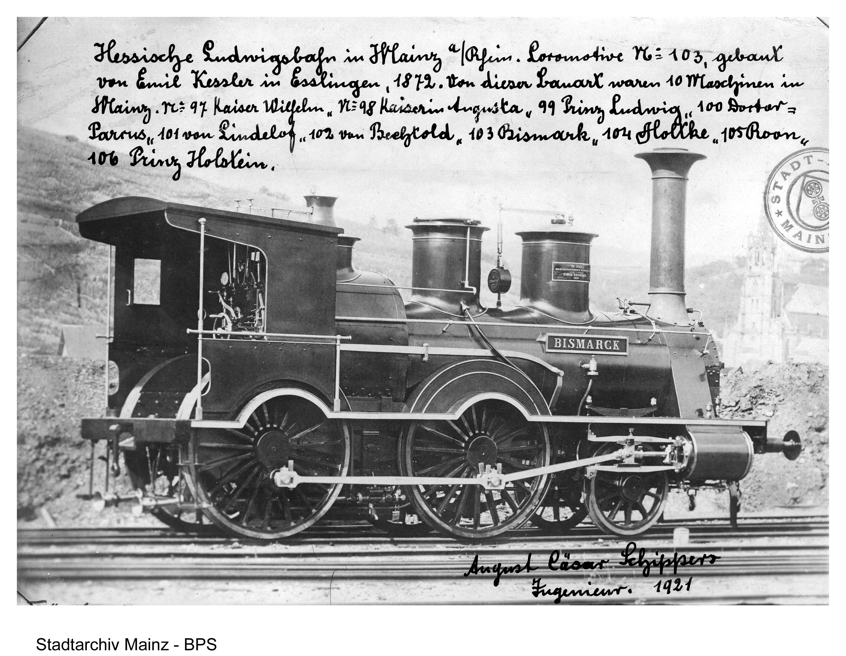 Engine No. 103 of Hessische Ludwigsbahn, built in 1872 by Emil Kessler in Esslingen